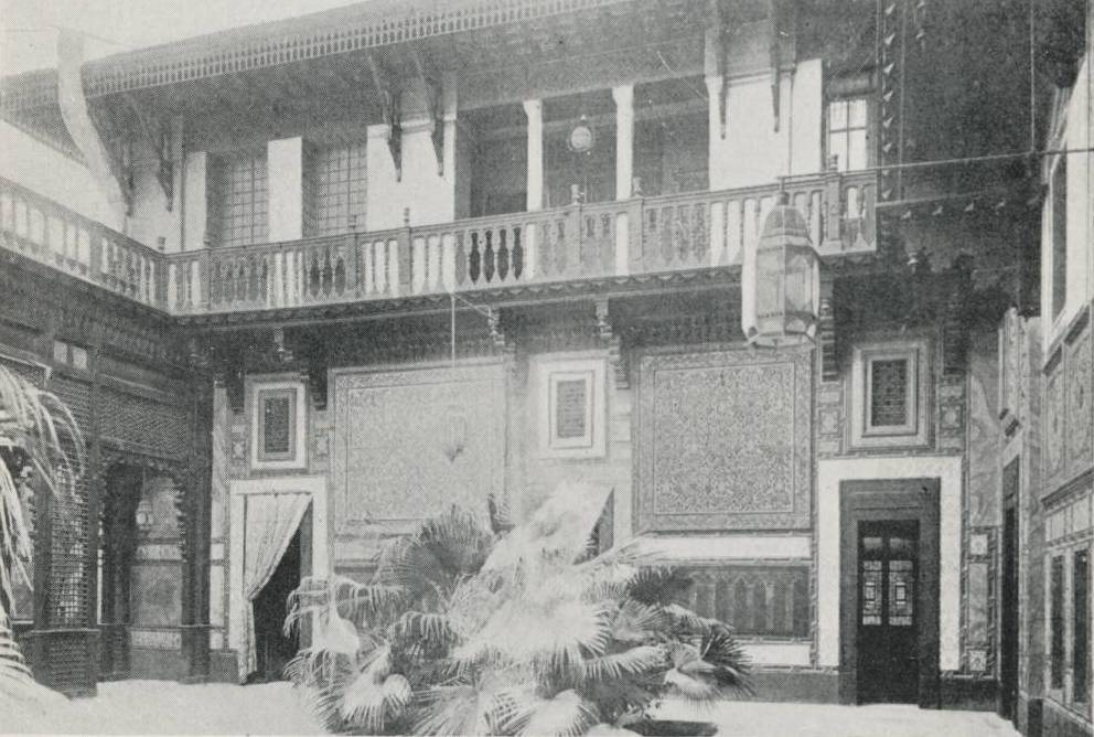 “ARAB MANSION”A courtyard inside a mansion in Egypt, with a stand of low plants in the middle and a balcony surrounding it.